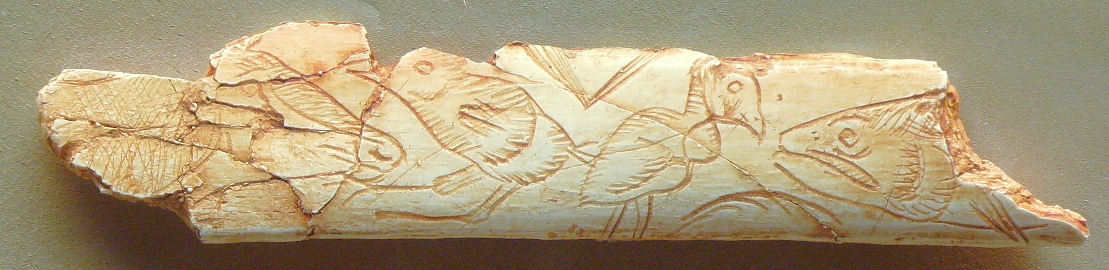 Aven d’Orgnac, musée de Préhistoire, F-07150 ORGNAC-L'AVEN: deer (left), two birds and a fish (probably a male salmon): two animals of the air are connecting the animals of the land and of the water; from: Grotte des Deux Avens, Vallon-Pont-s'Arc, ~12.000 B.P.